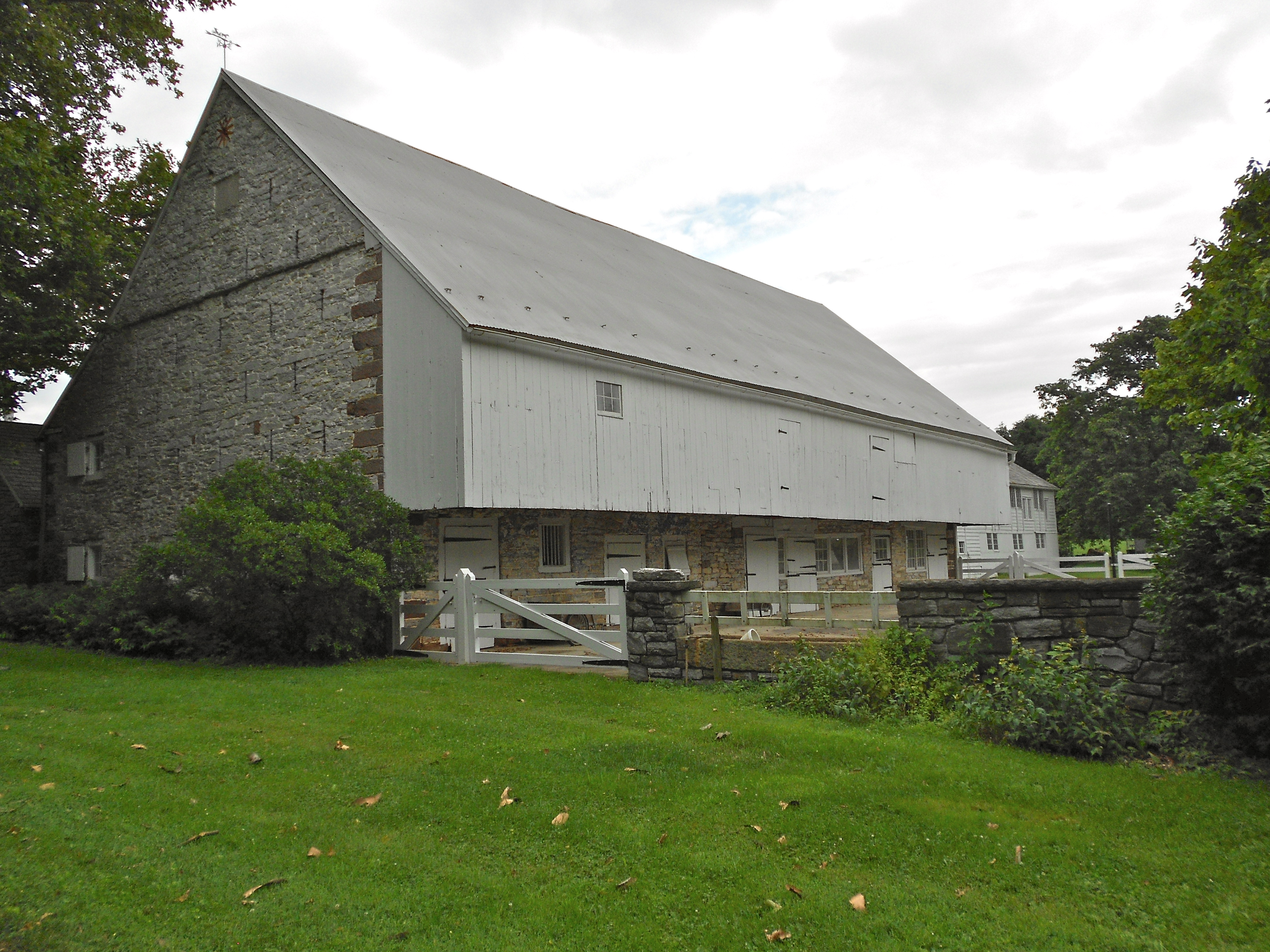 Stone barn at Hibshman Farm on the NRHP since June 27, 1980, on Springville Road, Ephrata Township, Lancaster County, Pennsylvania